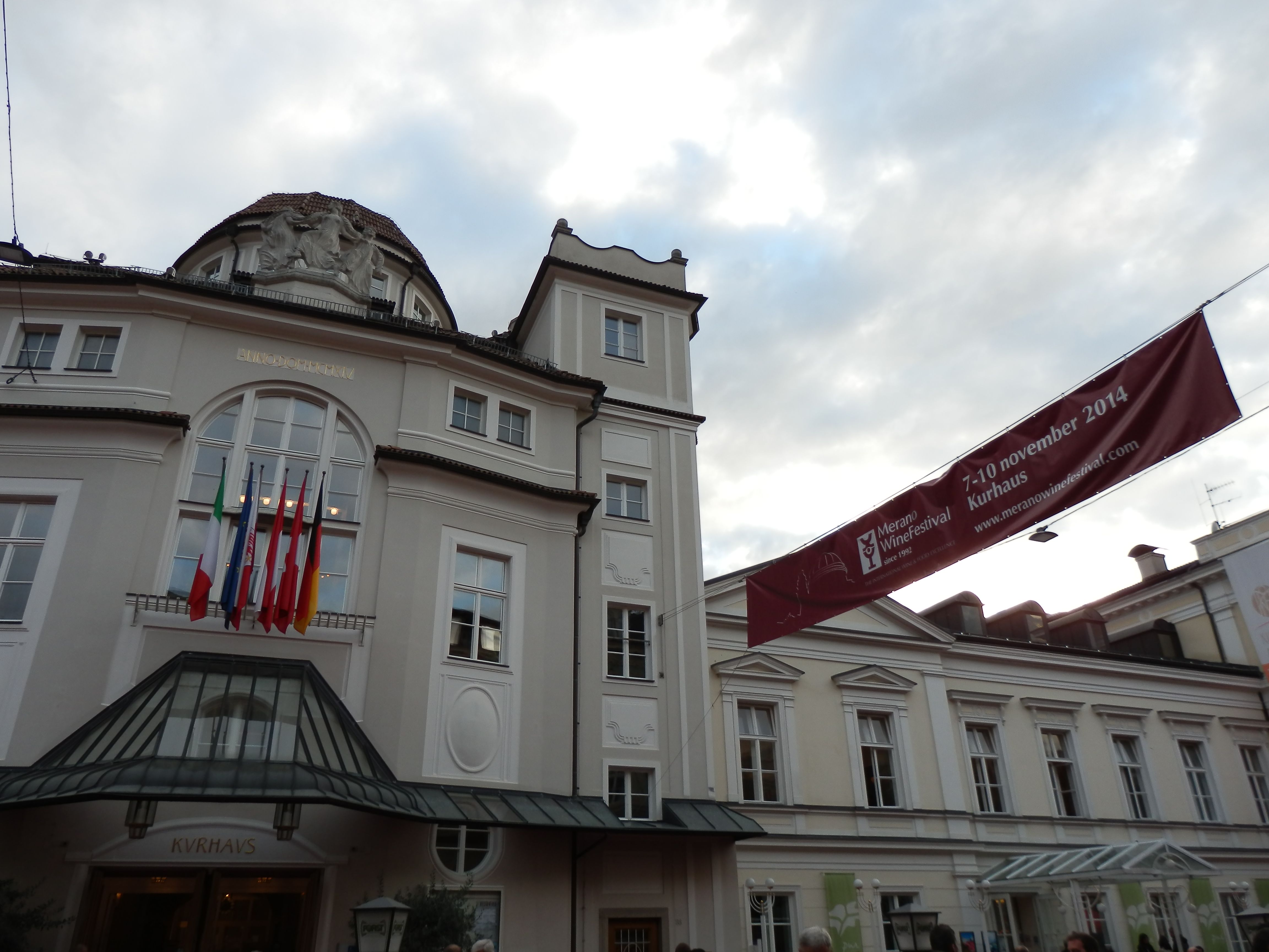 Merano WineFestival 2014 - Banner and façade of the Kurhaus